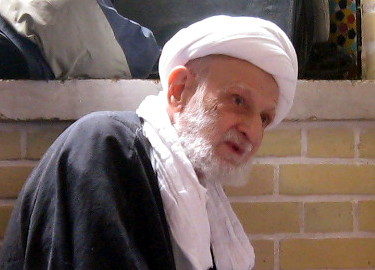 Grand Ayatollah Mohammad Taghi Bahjat Foumani, a prominent shi'a marja' of Iran.